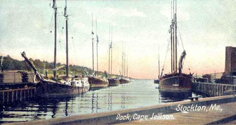 Dock, Cape Jellison, Stockton Springs, Maine, USA